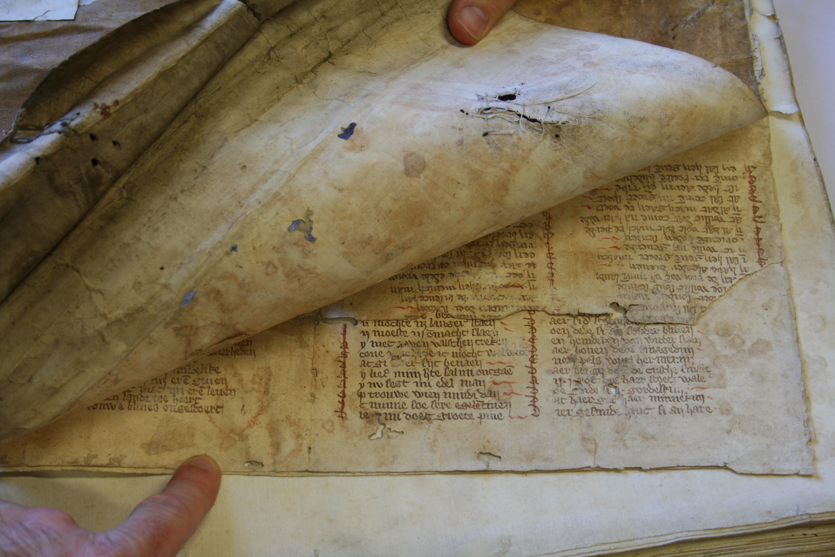 Paper fragments of Jonathas ende Rosafiere (c. 1350-1375) in account book of Mechelen (1417-1418). Photo made on the day of their discovery. Mechelen, City Archives.